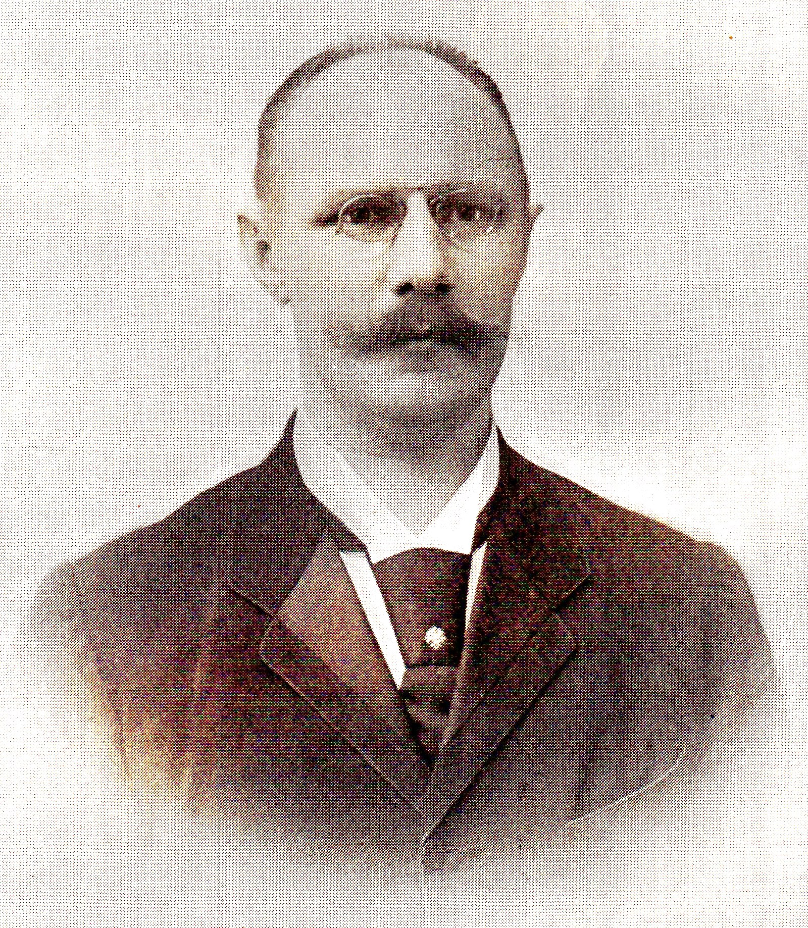 Dr. S. Lykles